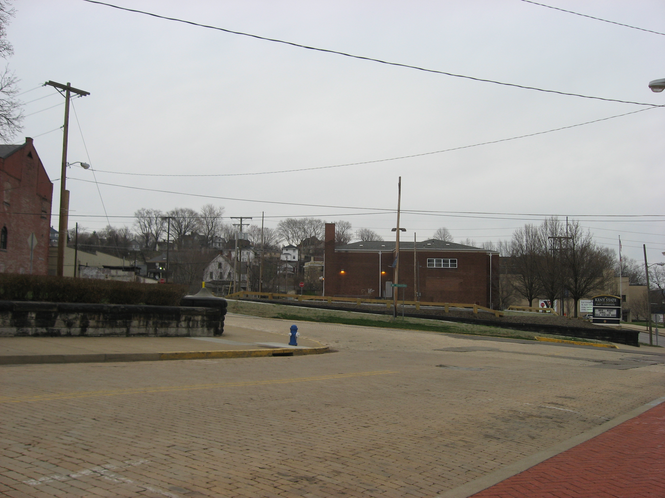 Site of the Homer Laughlin House at 414 Broadway in downtown East Liverpool, Ohio, United States. Built in 1882, the house is listed on the National Register of Historic Places despite having been destroyed.